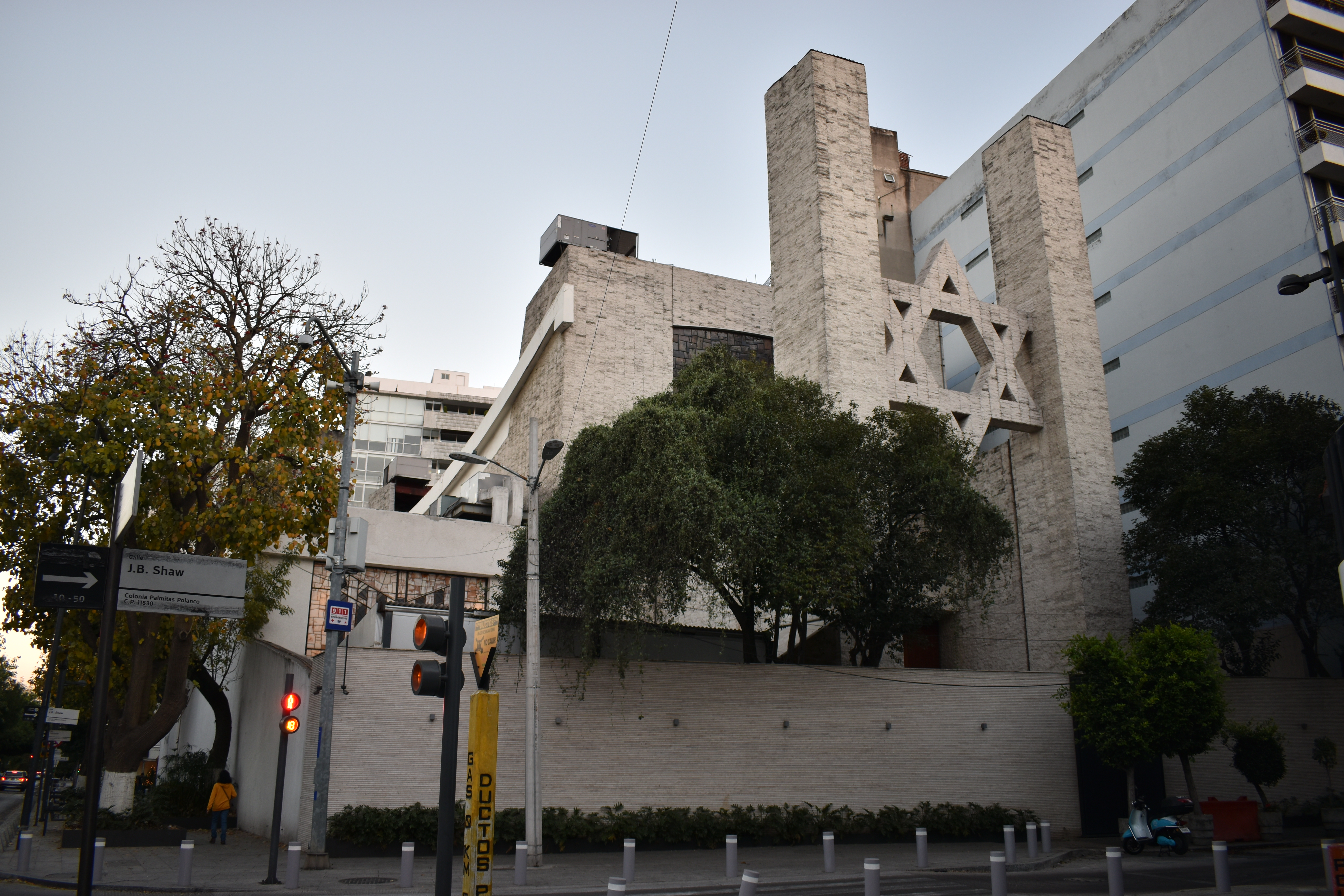 Sinagoga Maguén David Calle Sócrates 371 Polanco, Mexico City, Mexico